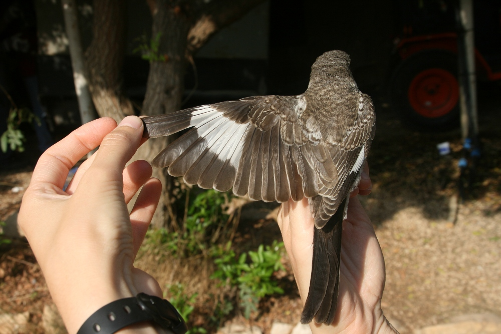 This is a juvenile Masked Shrike